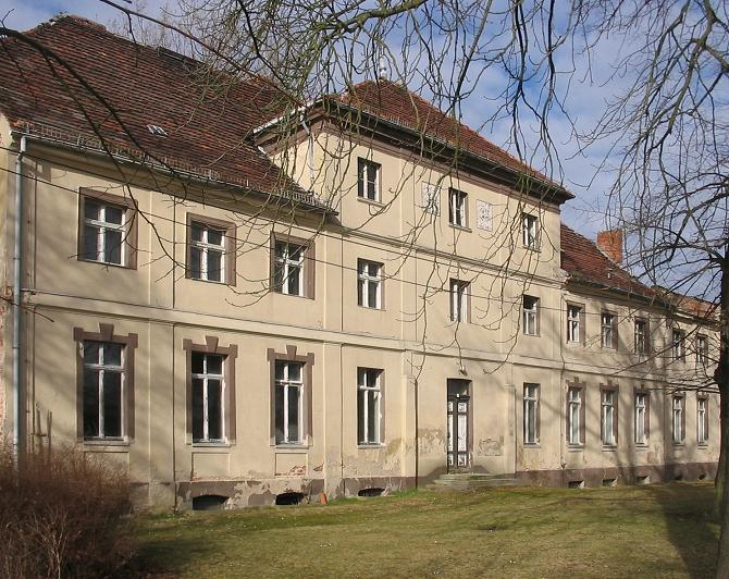 Manor house, built around 1800, in Löwenbruch. The village Löwenbruch is a part of the town Ludwigsfelde in the district Teltow-Fläming, state Brandenburg, Germany.